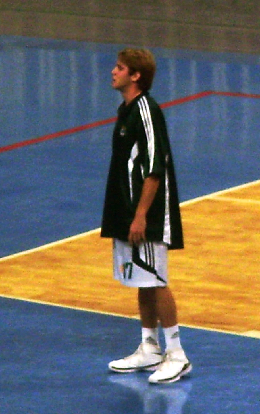 Dimitris Verginis PAO Efes Pilsen OAKA stadium